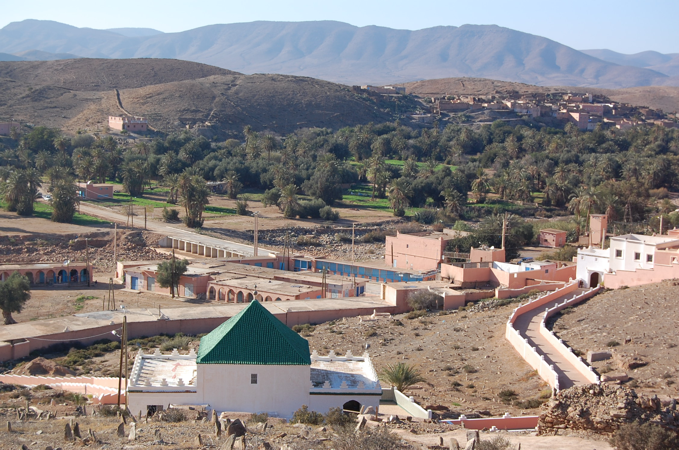 Walon: Viyaedje Zawiya Sidi Ahmed Ou Moussa et payizaedje do Tazerwalt (Pitit Atlasse)